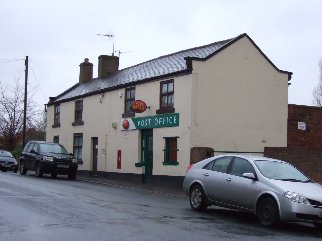 Hackenthorpe Post Office Situated in the oldest part of the village,which is now surrounded by modern housing development on both green and brown field sites.